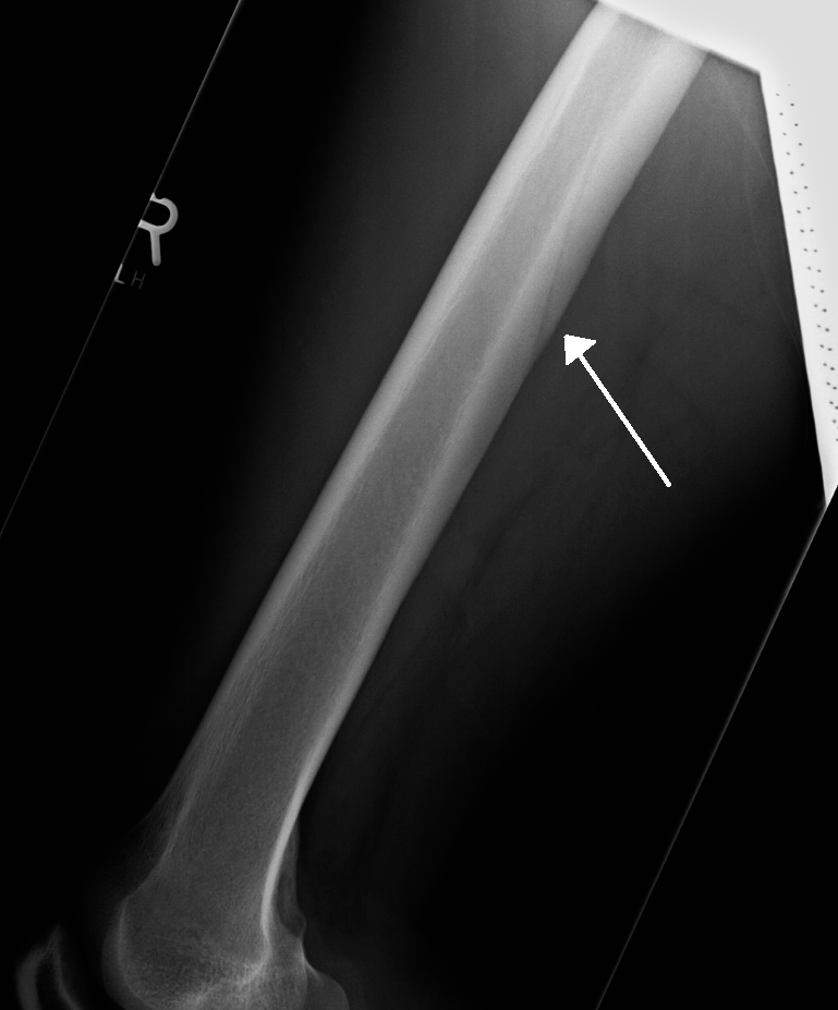 A nutrient vessel feeding the femur